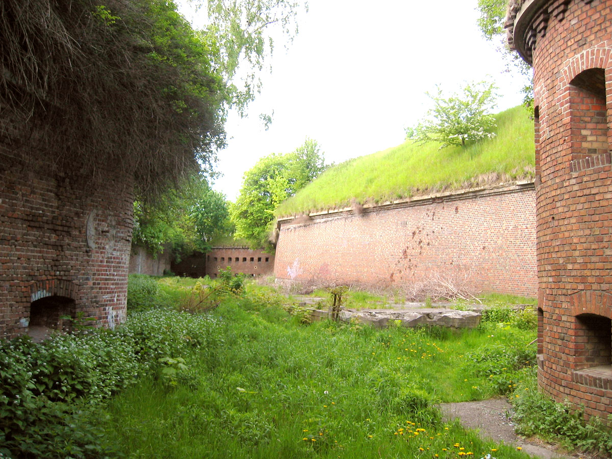 Gdansk, Poland.